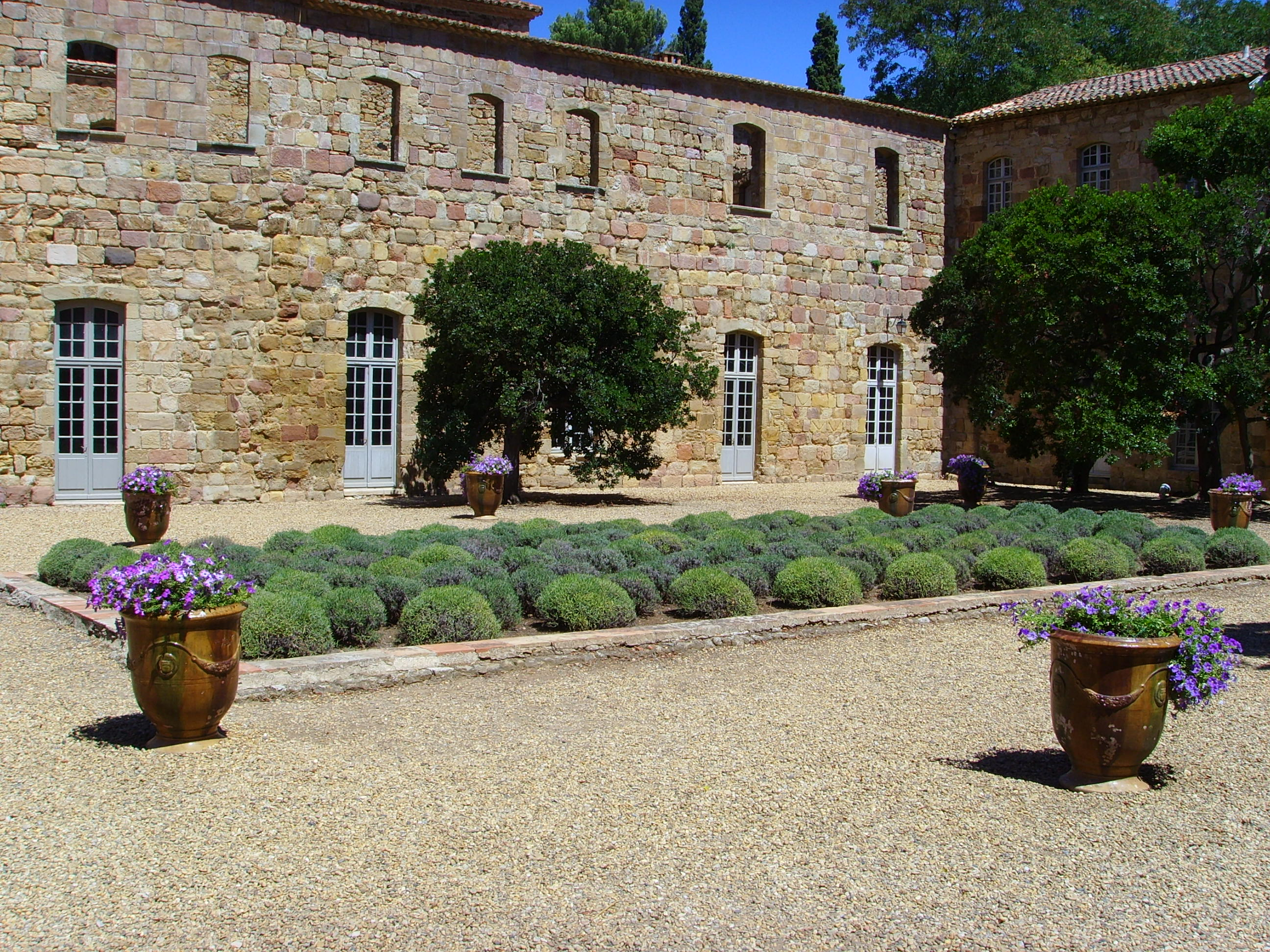 Abbaye Sainte-Marie de Fontfroide, Arbeitshof (France, southwest of Narbonne) summer 2006 author: Gerbil